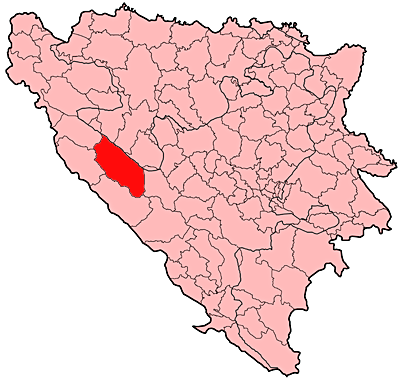 Municipality of Glamoč in Bosnia and Herzegovina